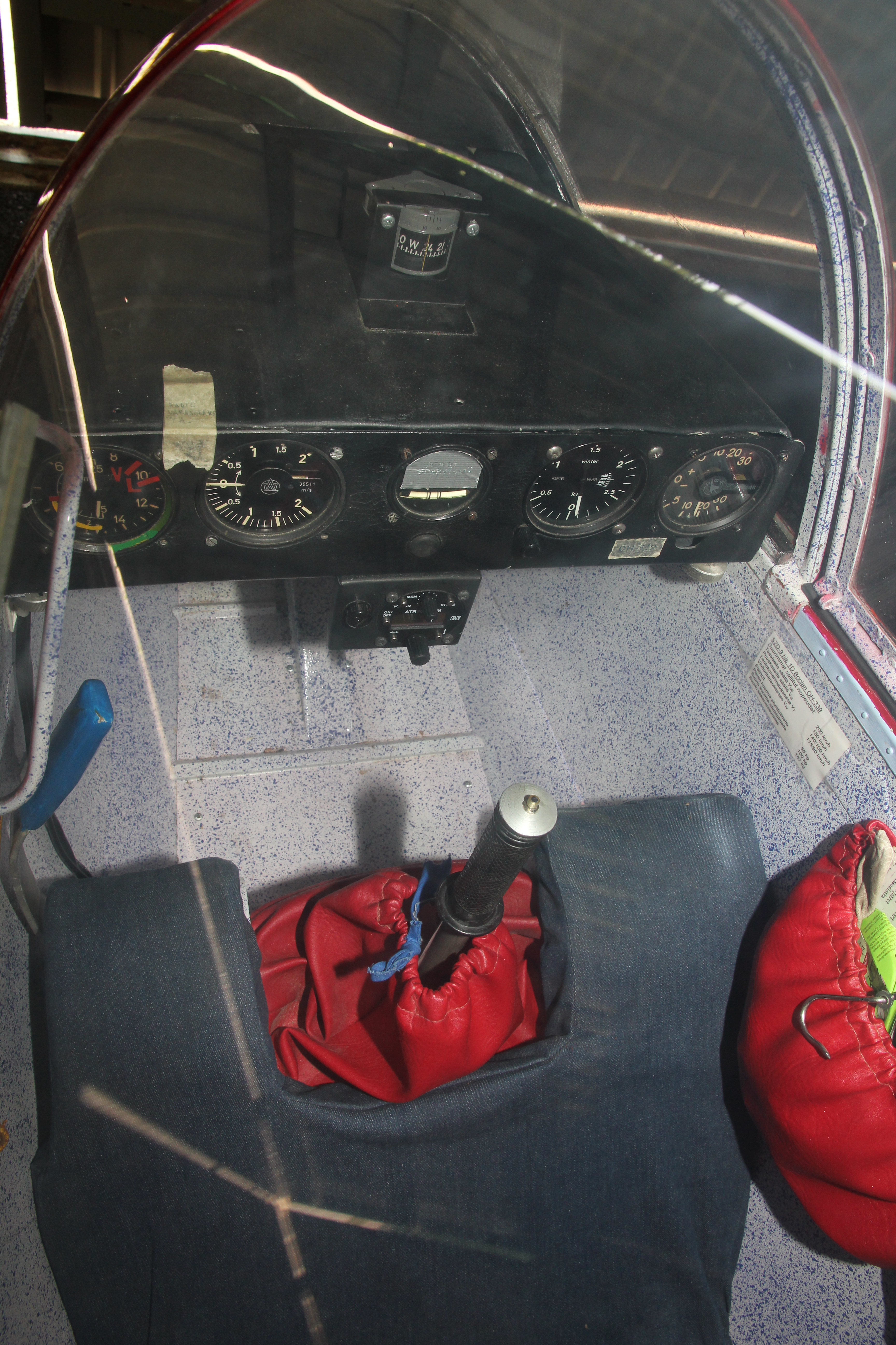 Cockpit of SZD-9 bis 1D Bocian glider OH-339 (OH-KBO) photographed in Karhulan ilmailukerho aviation museum.